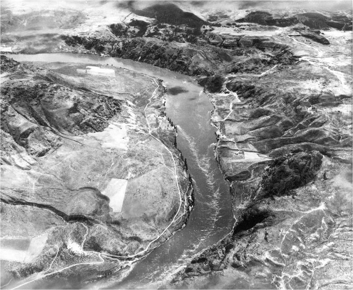 View south of future Grand Coulee Dam site